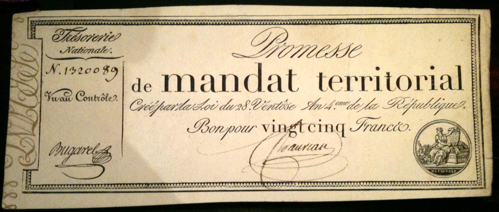 25 french francs « Mandat territorial » Bill (1796)